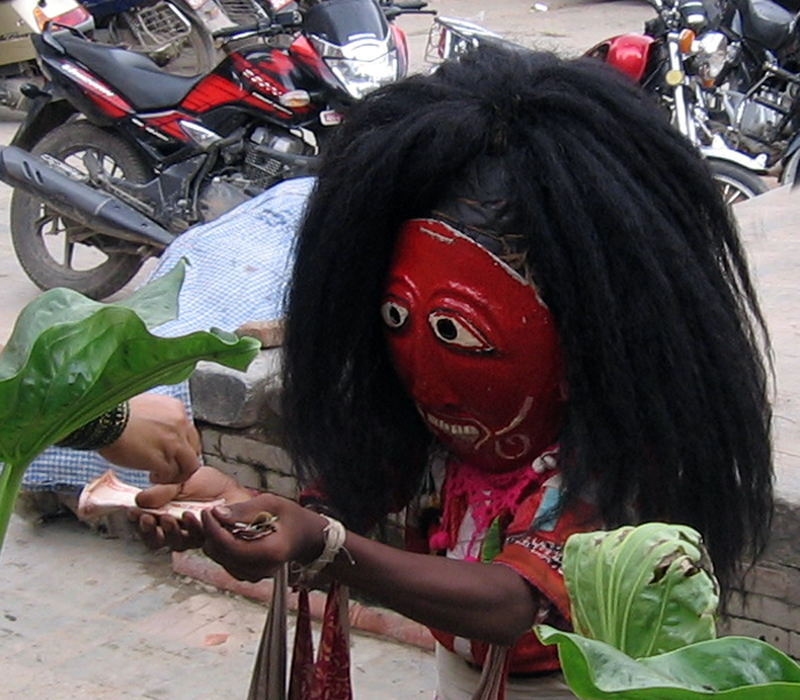 A Lakhe (demon) dancer from Dhading in Kathmandu, Nepal during the Yenya festival.